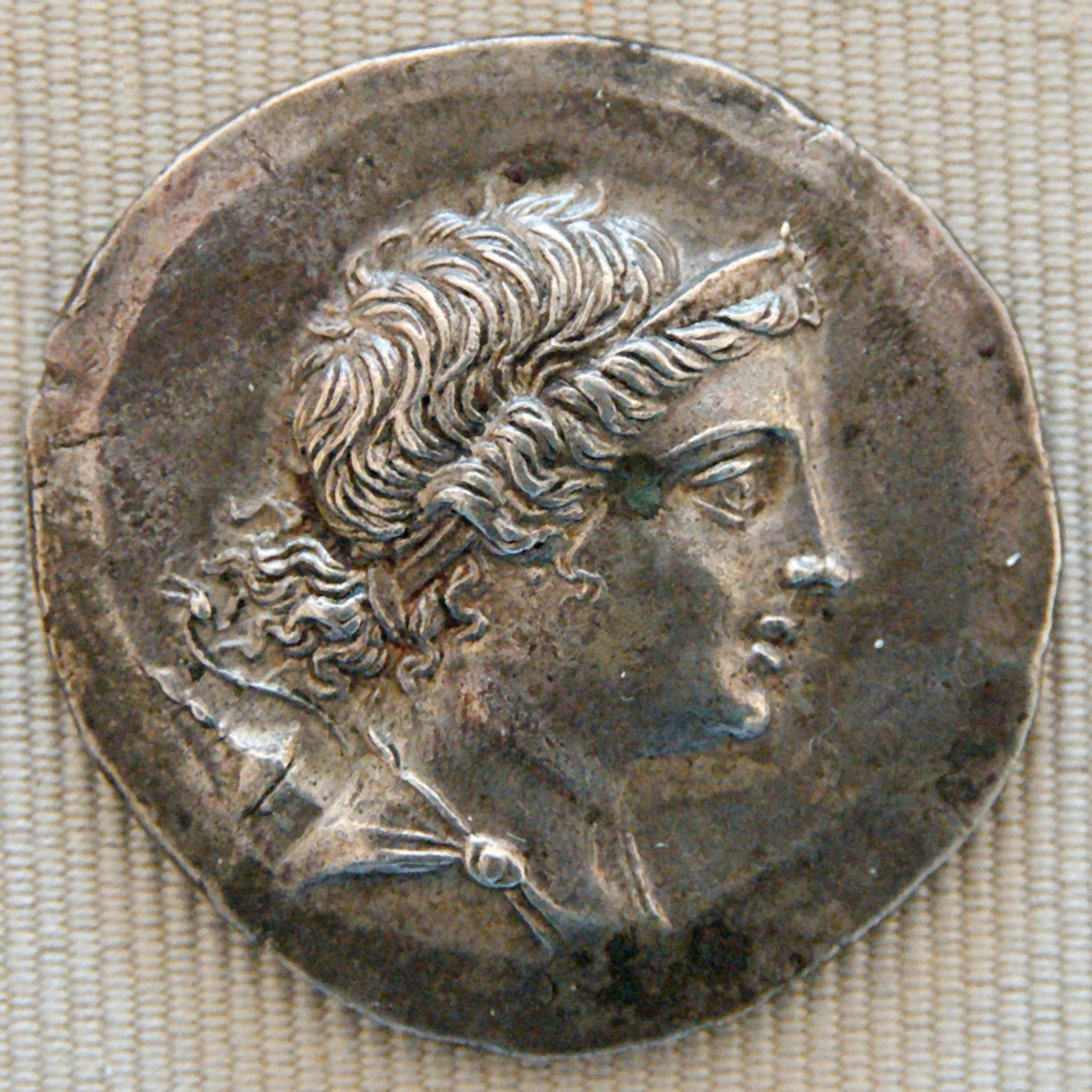 Silver tetradrachm of Magnesia on the Maeander, ca. 155–145 BC, obverse: head of Artemis with bow and quiver.